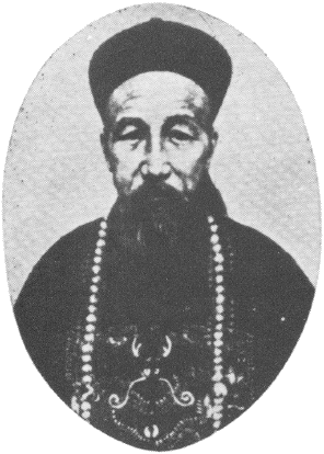 Qing Dynasty official Zeng Guofan.